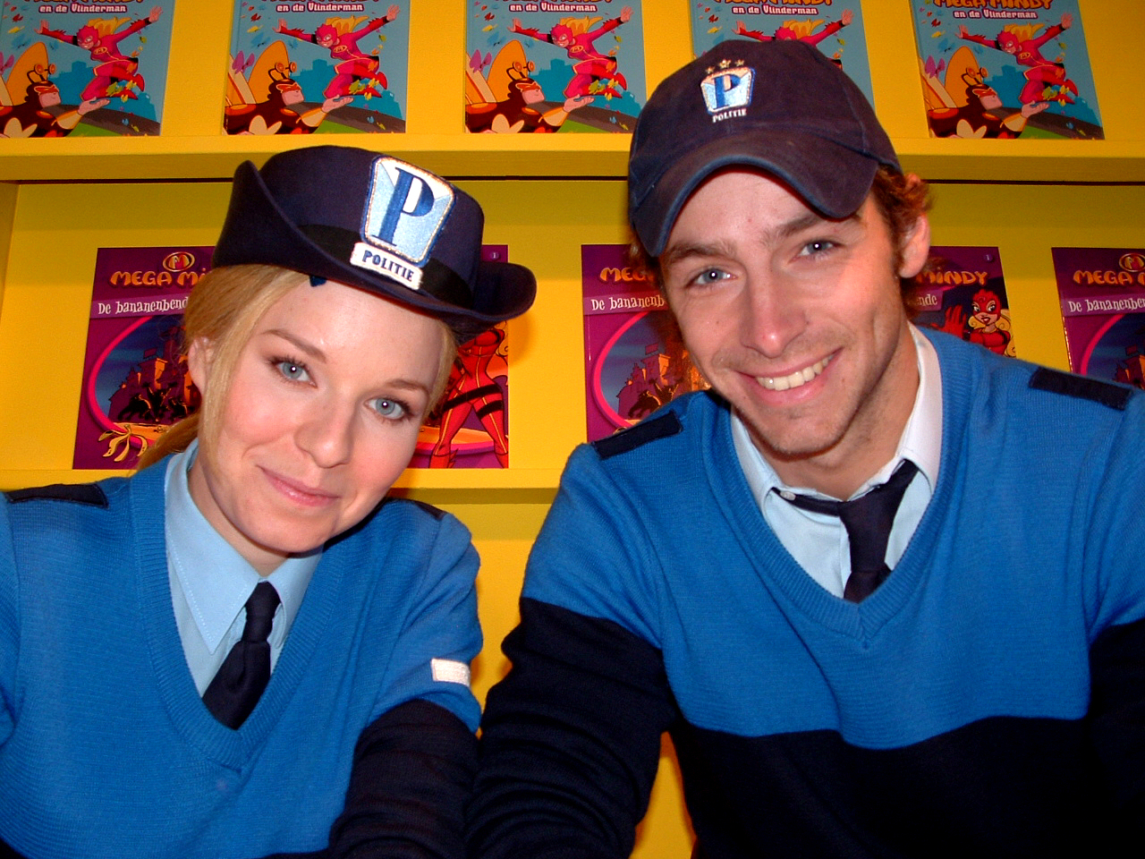 Free Souffriau and Louis Talpe at Boekenbeurs 2007, as Mieke Fonkel and Toby from the televisionshow Mega Mindy.